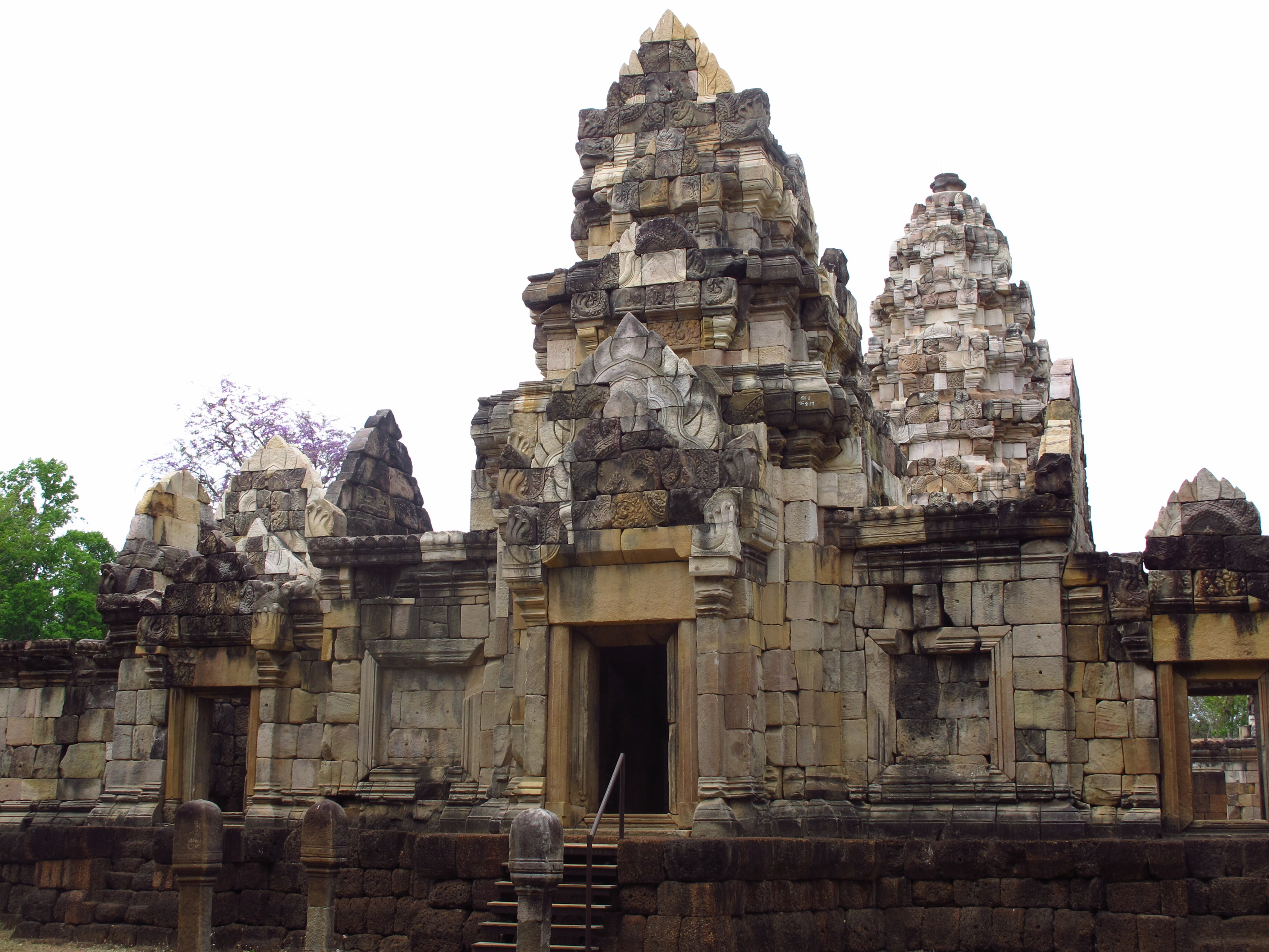 sadokkoktom font